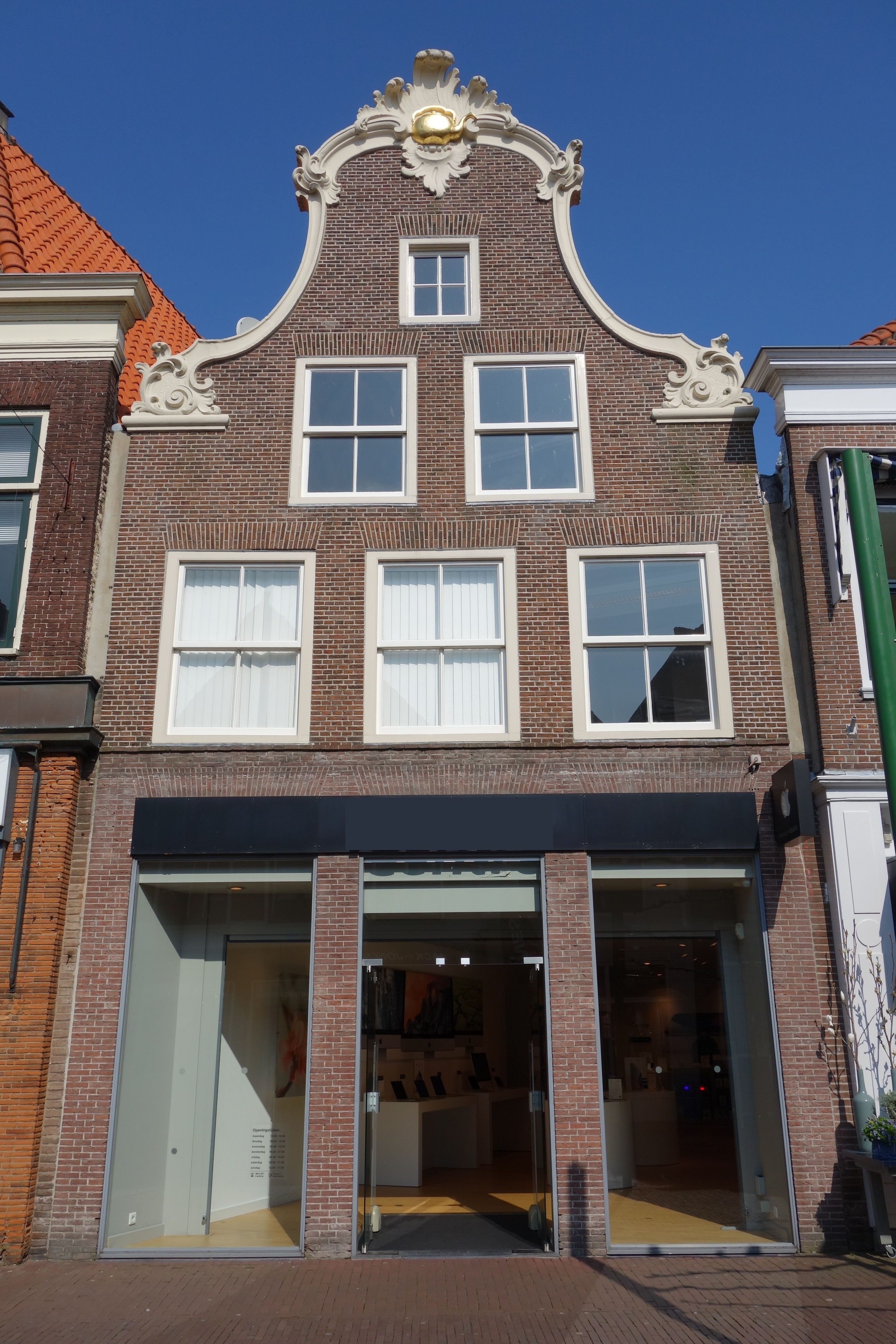 Rijksmonument: 22343. Adress: Grote Noord 50 in Hoorn, North Holland, the Netherlands